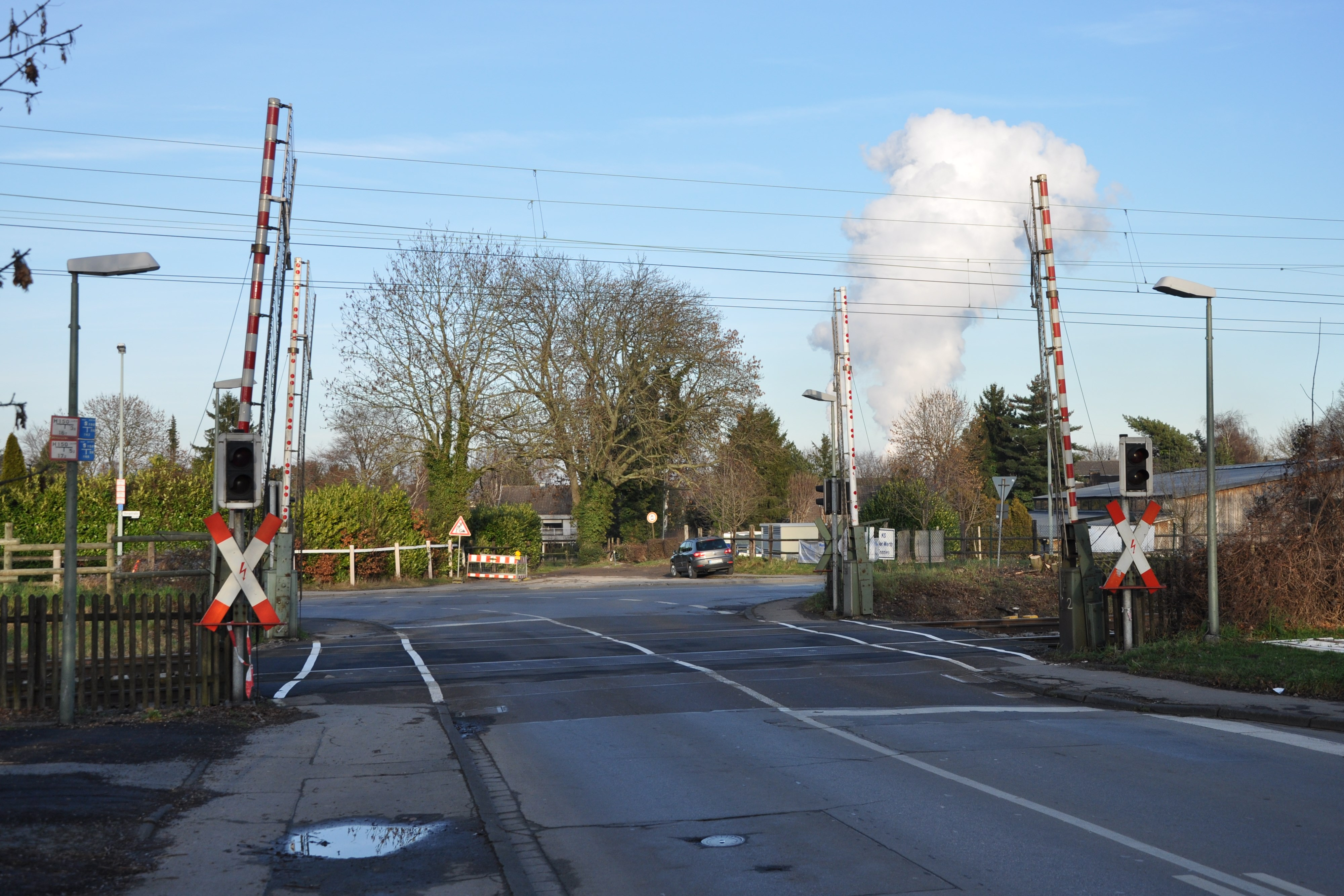 The railroad crossing "Eschweiler Jägerspfad" is the last remaining level crossing of the railway line KBS 480 Cologne-Aachen. There are plans to close it in the next few years.